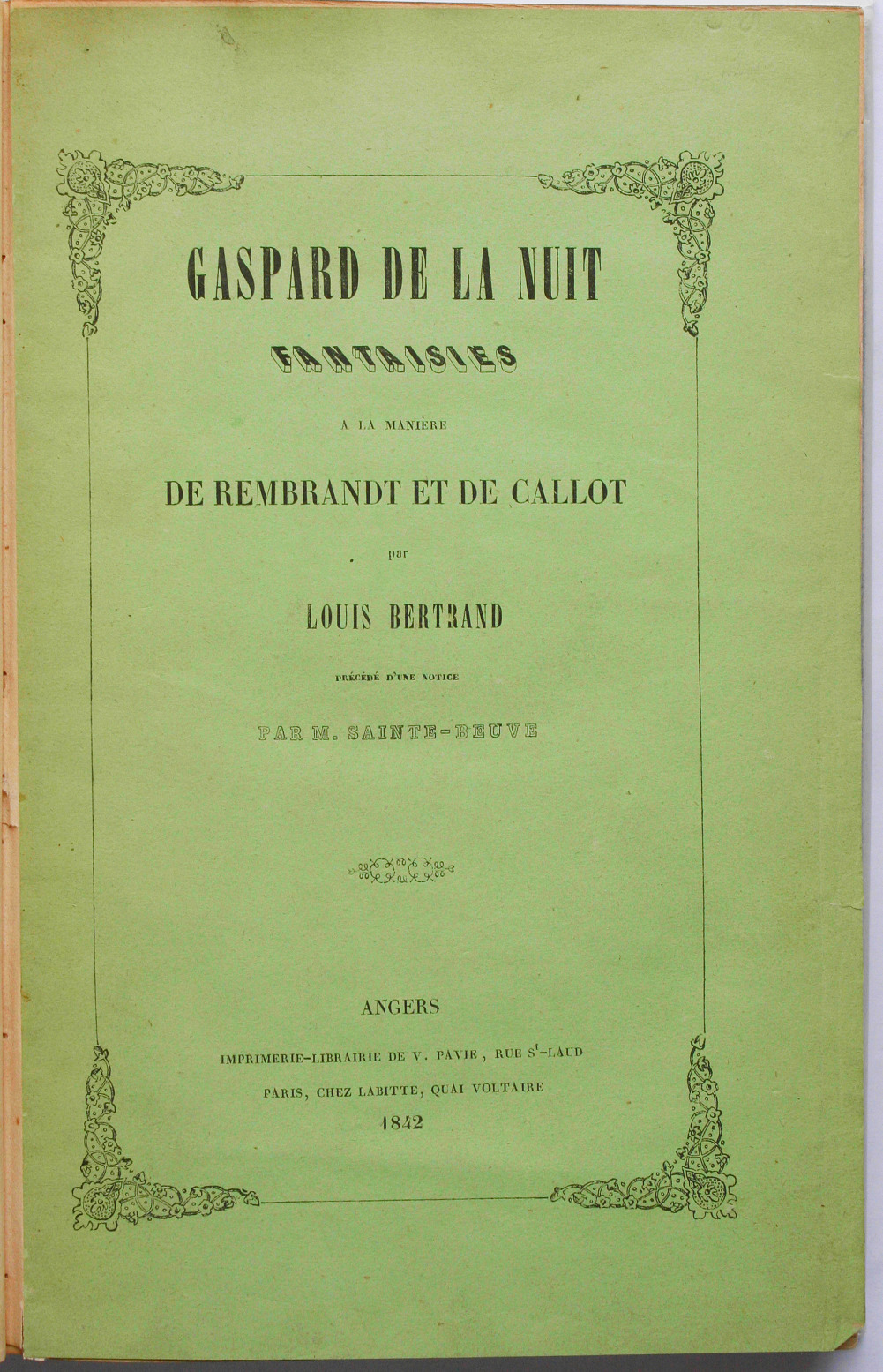 Gaspard de la Nuit,FrontCover, Louis(Aloysius) Bertrand ,1st edition, 1842, Angers and Paris, Victor Pavie